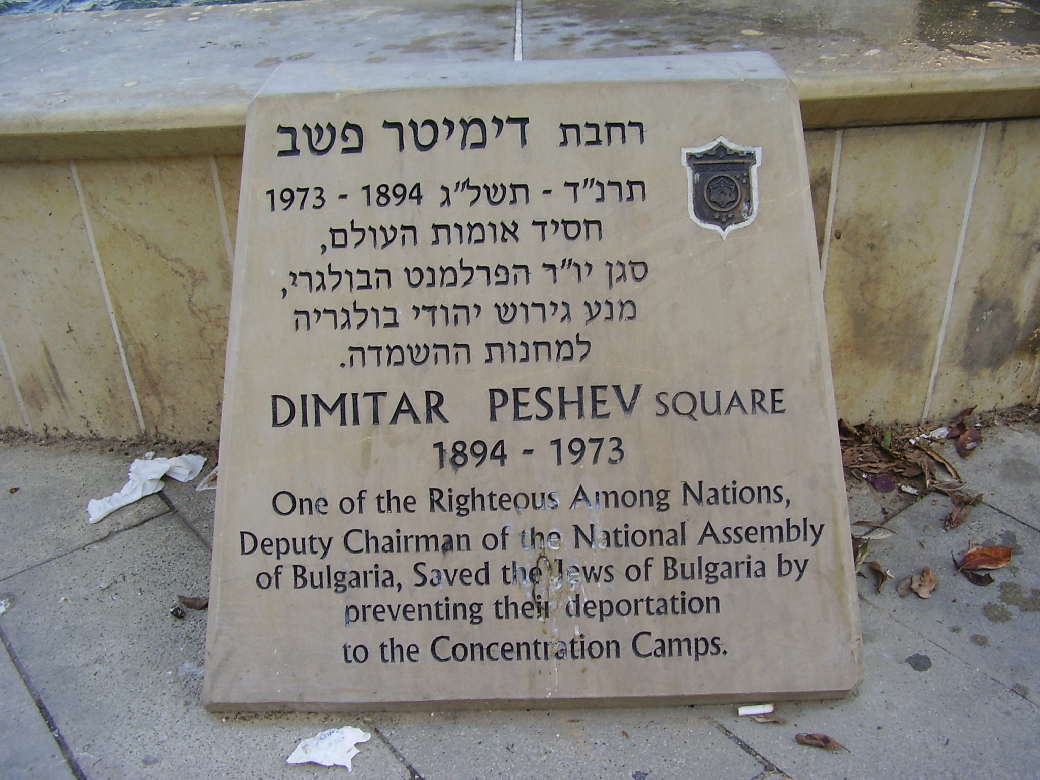 dimitar peshev memorial square in jaffa, israel